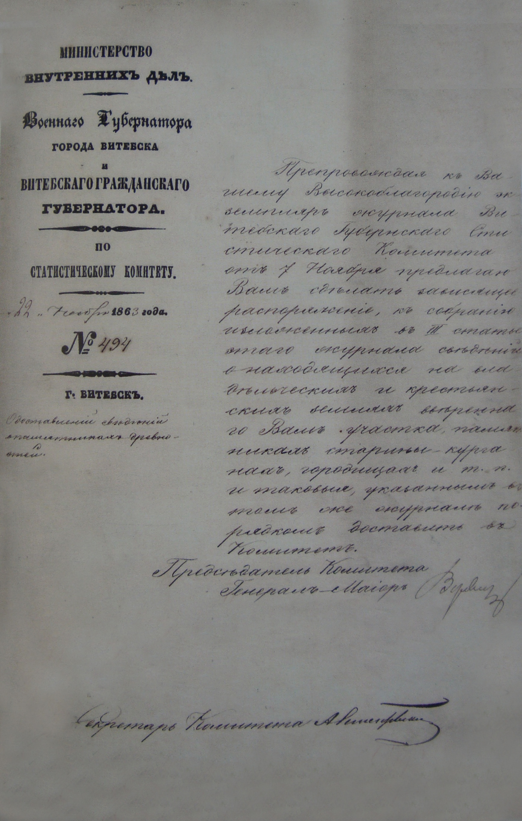 Document of Vitebsk goveronate's office, 1863 AD.